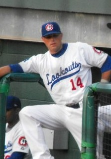 Russ Mitchell in the dugout during a game between Mississippi Braves and Chattanooga Lookouts in Chattanooga TN June 20, 2009 taken with my own Camera Camera Brand: FUJIFILM Camera Model: FinePix S1000fd Image Type: jpeg (The JPEG image format) Width: 3648 pixels, Height: 2736 pixels- original size (cropped for better image) Date Taken: 2009:06:20 08:45